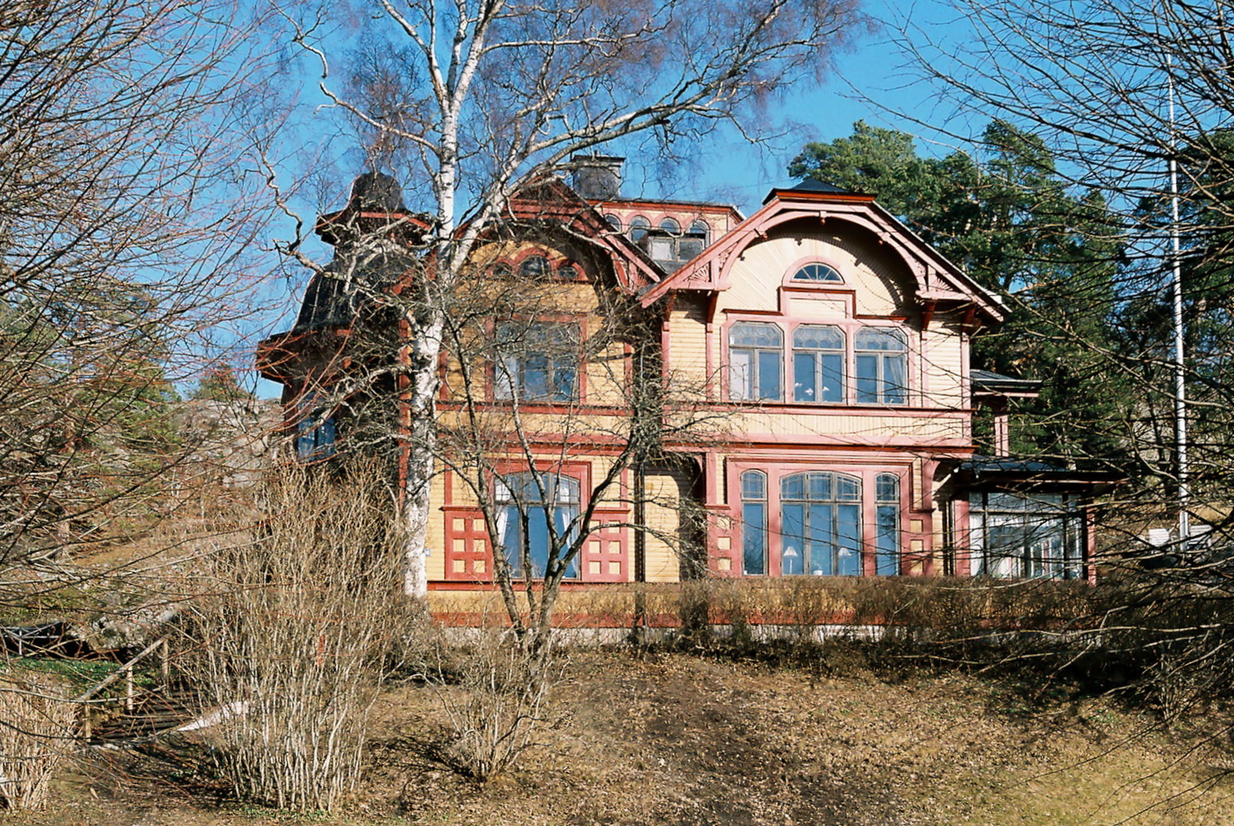 Sjuvillorna.